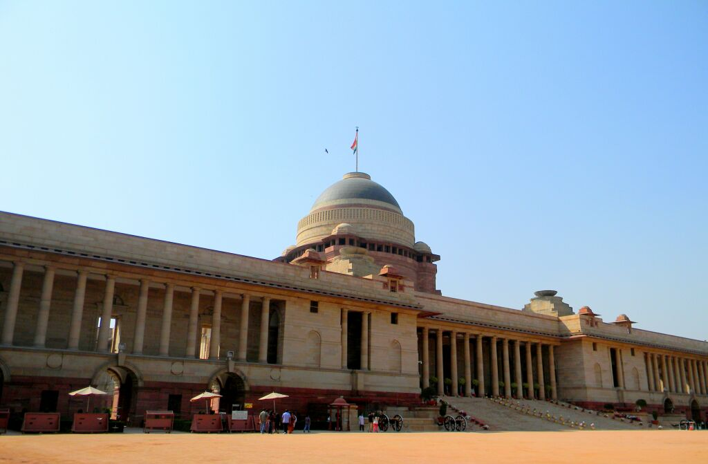 Close up view of Rashtrapati Bhawan(President Palace) New Delhi